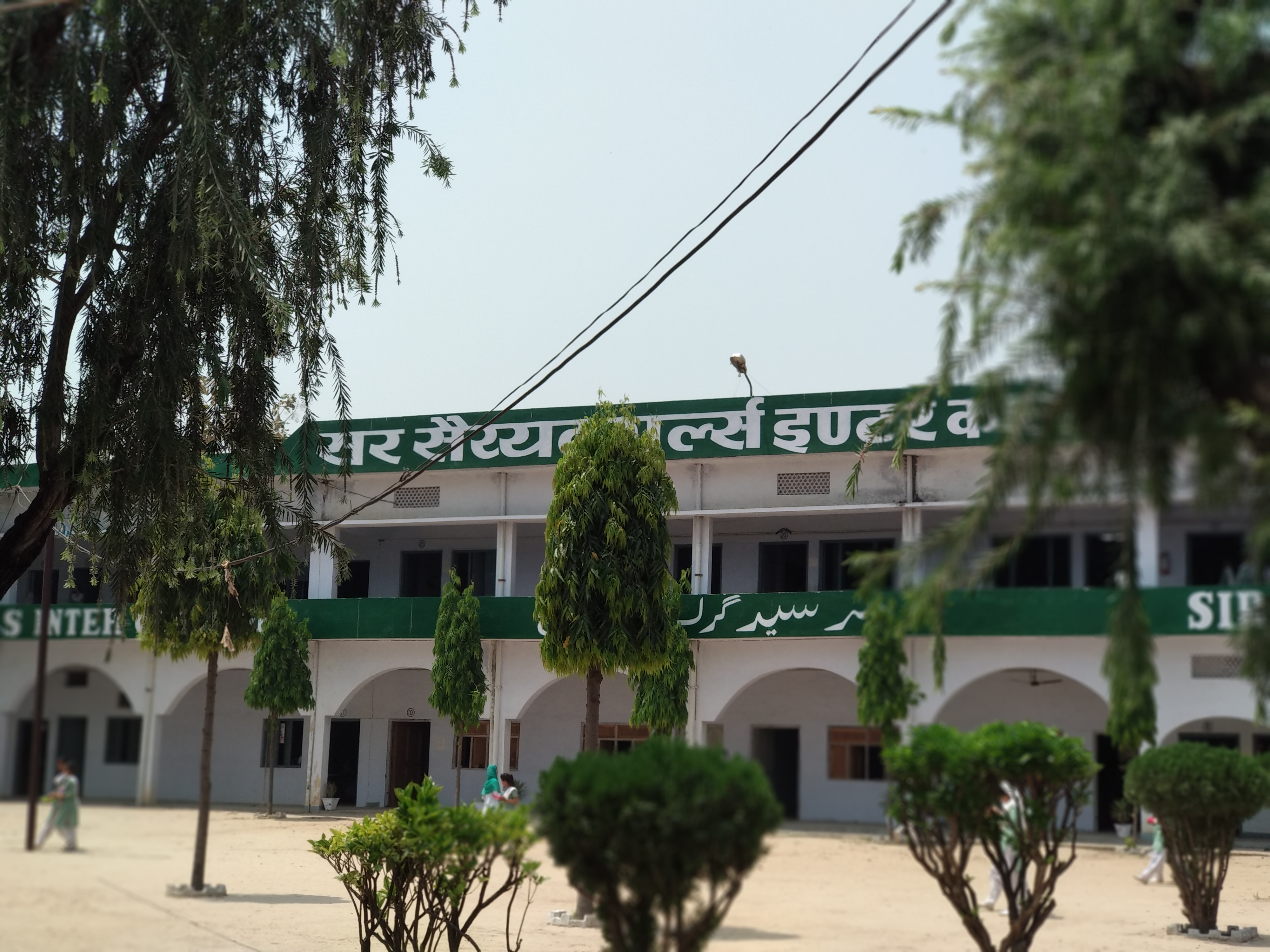 Sir Syed Gilrs Inter College Qazipura Bahraich